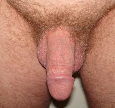 Anatomically Complete Circumcision Example 1